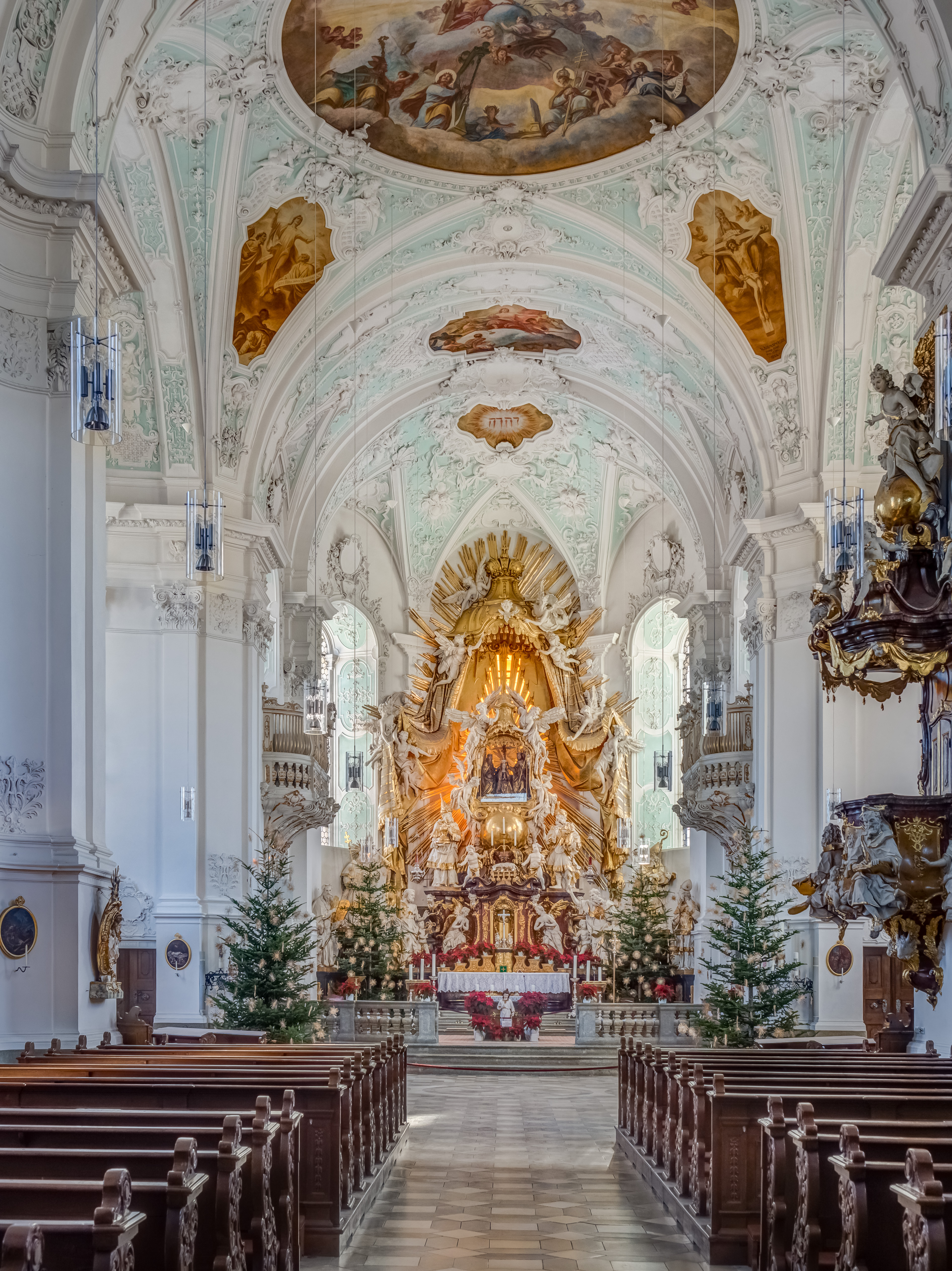 Chancel or the Basilica in Gößweinstein